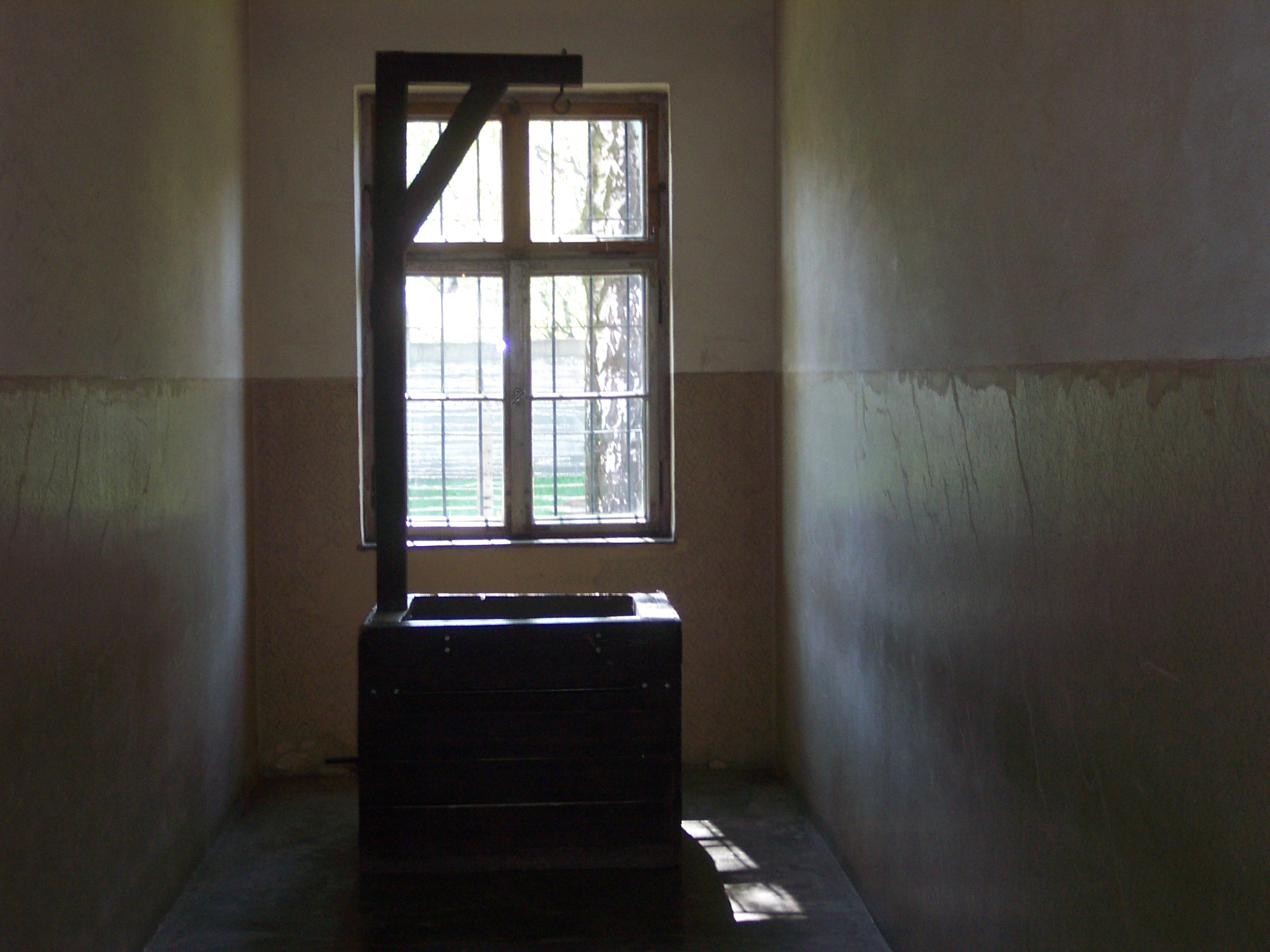 Auschwitz I Death Block 11